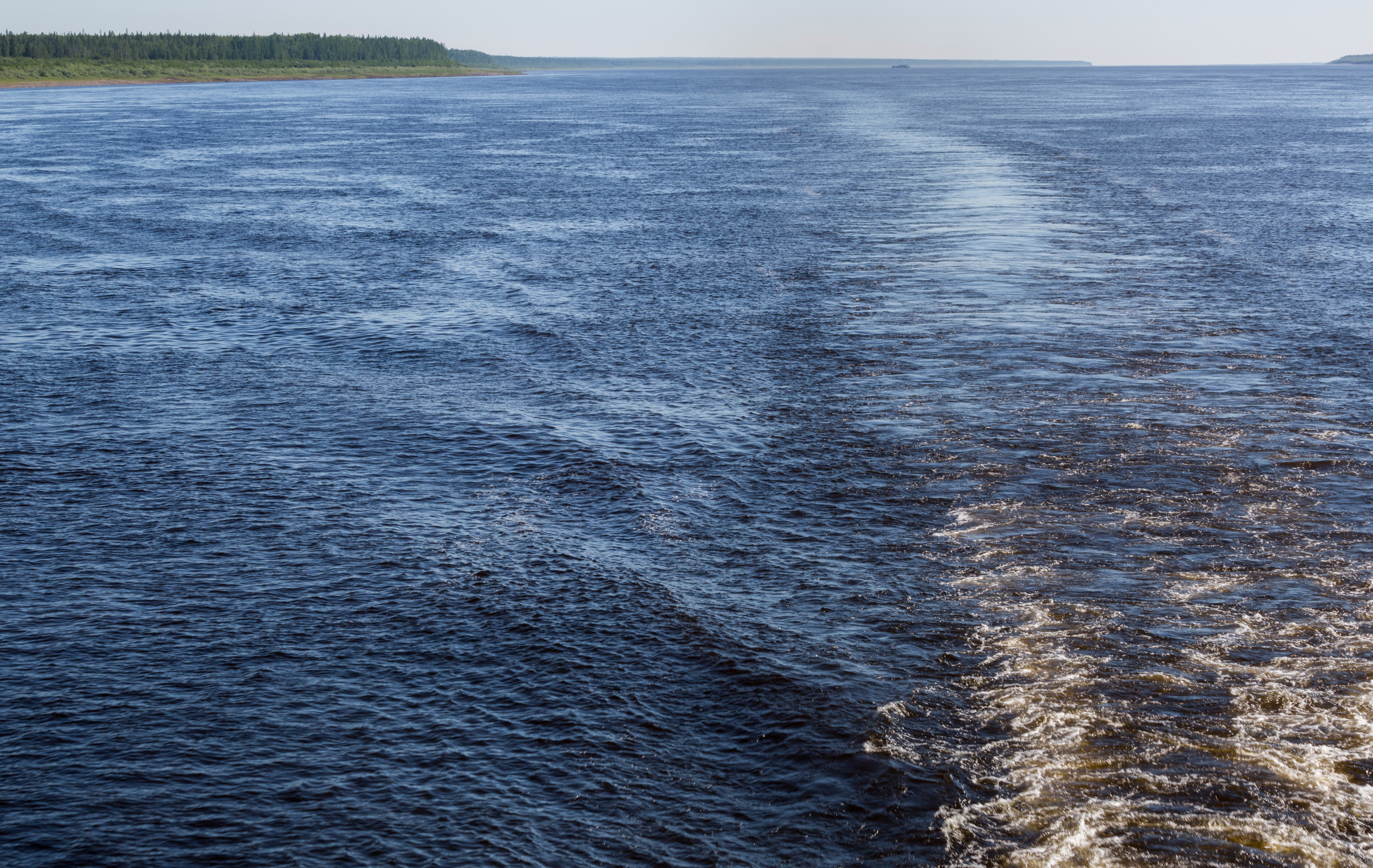 Yenisei in the North